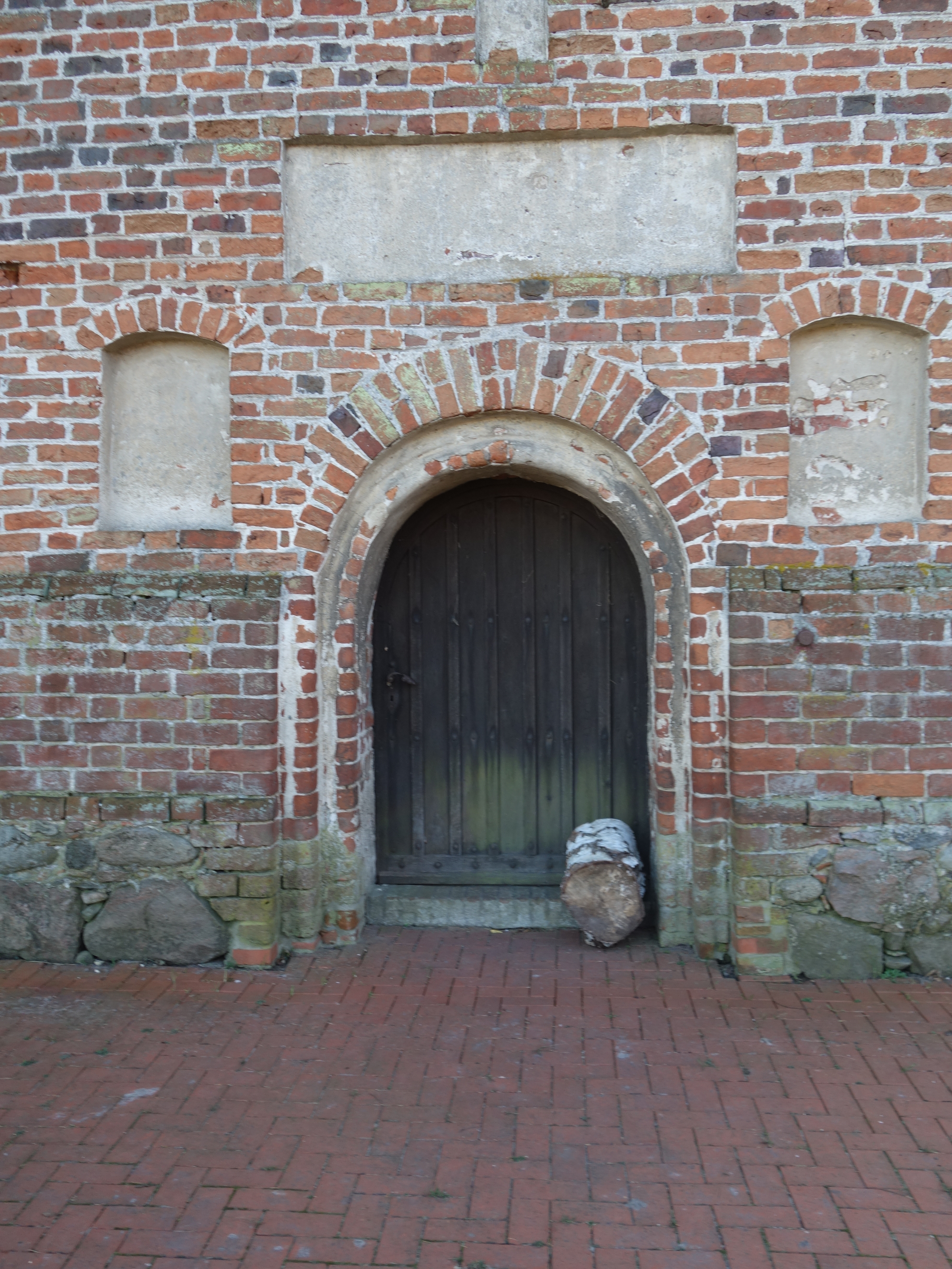 North-western portal of church in Hohennauen, Seeblick municipality, Havelland district, Brandenburg state, Germany.